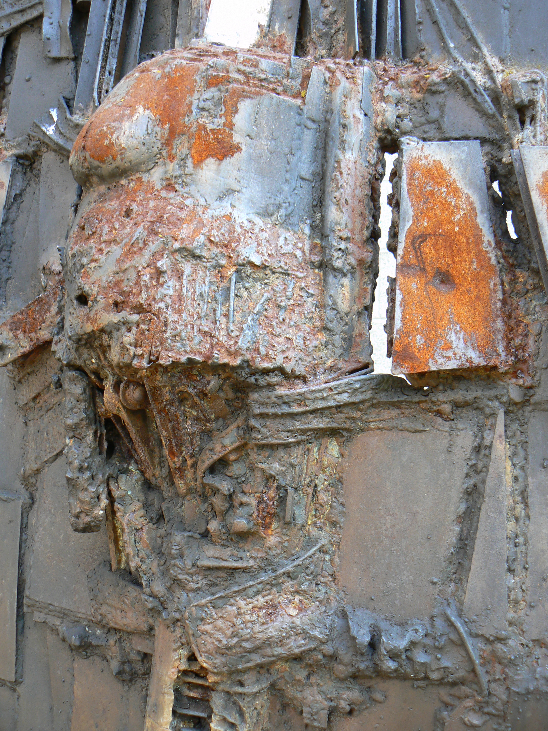 sculpture (detail) L'Homme de Figanieres (1964) by César (Baldaccini) in Duisburg/Germany